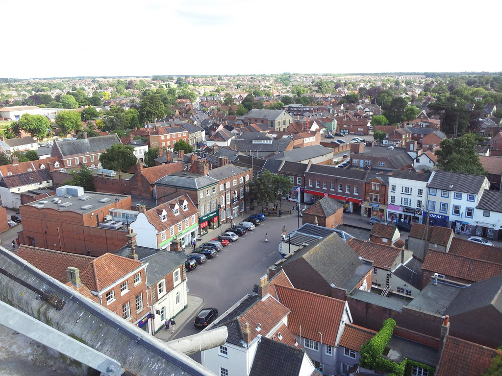 View from Beccles Church Tower 2